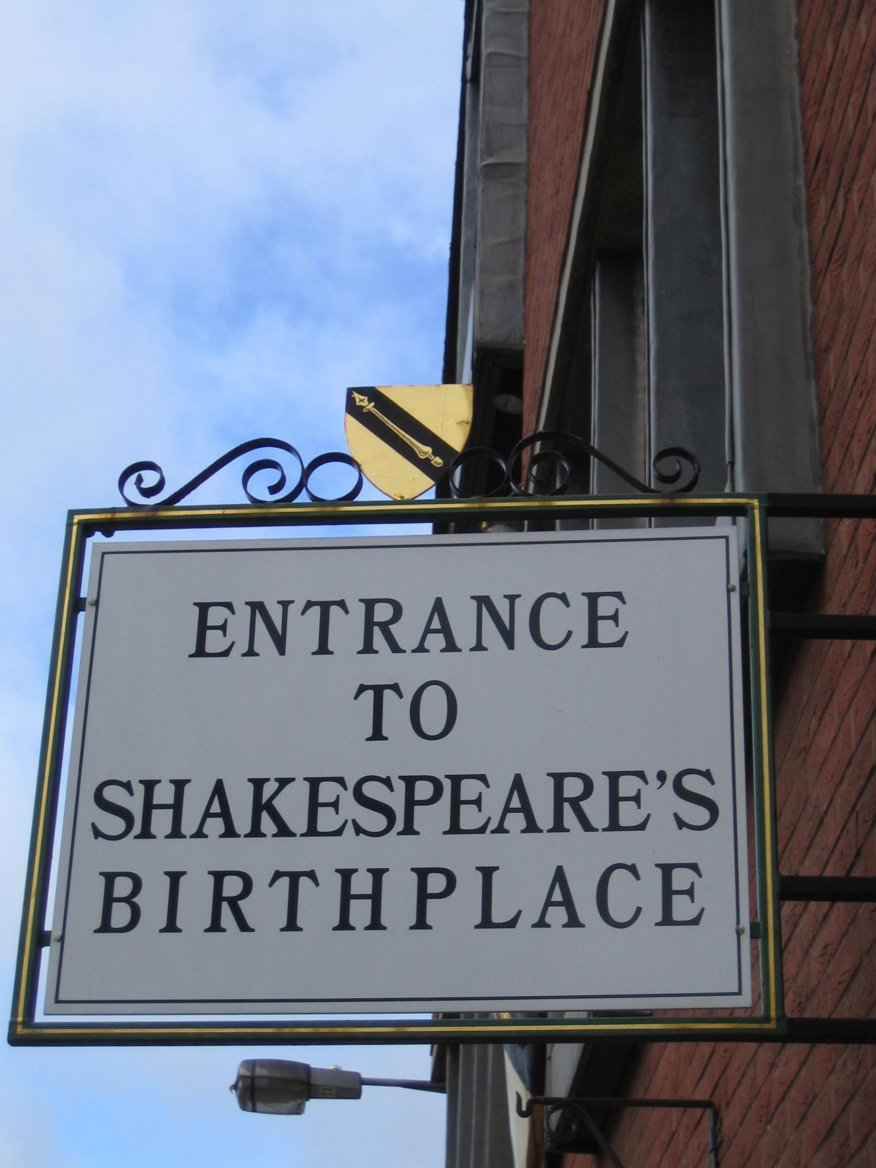 A sign saying; "Entrance to Shakespeare's Birthplace" in Stratford-upon-Avon, Warwickshire, England.